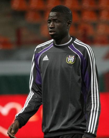 Cheikhou Kouyaté with R.S.C. Anderlecht.